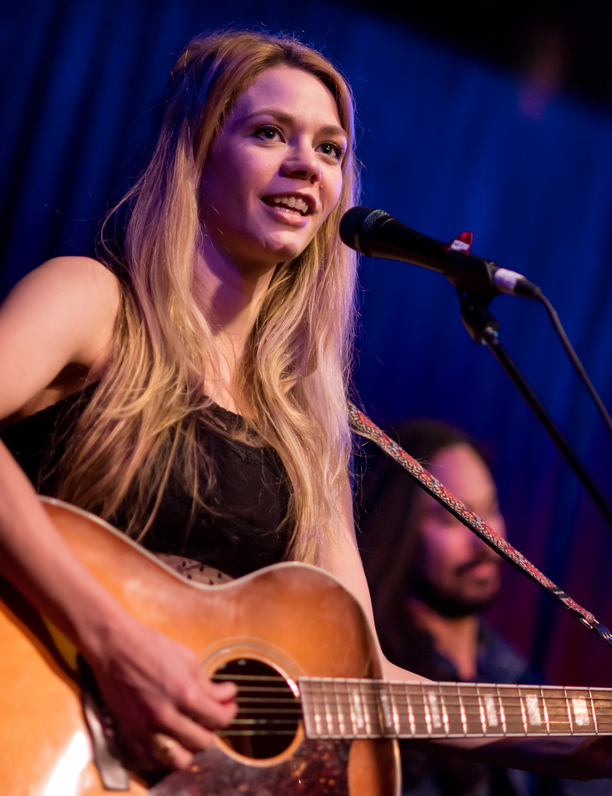 Natalie Gelman performing live at the Hotel Cafe in Hollywood, Los Angeles, California, on Wednesday, March 22, 2017.